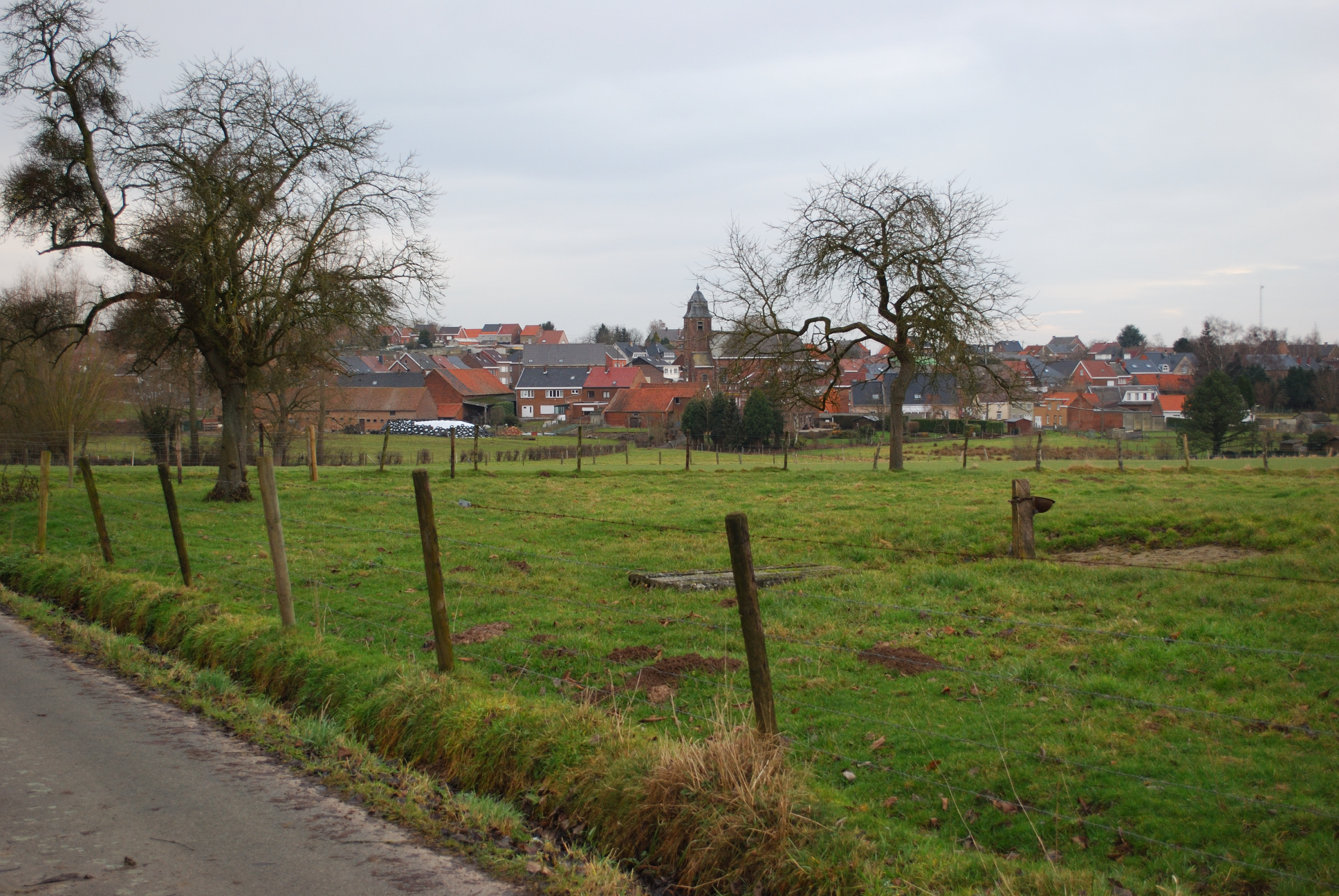 Village centre of Leerbeek (commune of Gooik, Belgium) from the South. Nikon D60 f=32mm f/5 at 1/50s ISO 200. Processed using Nikon ViewNX 1.0.3.